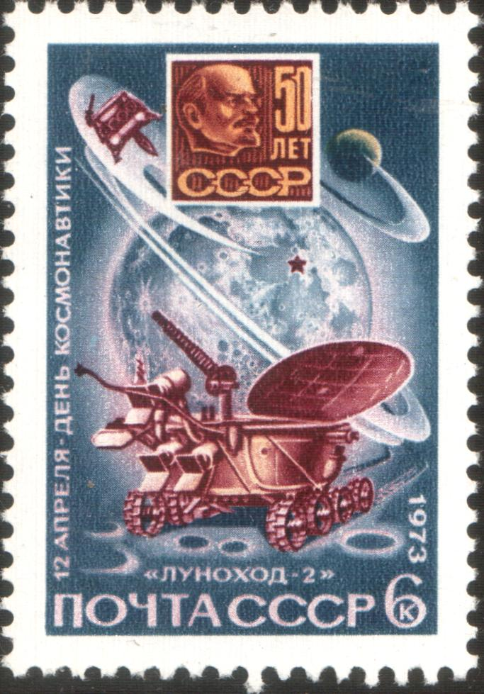 USSR stamp